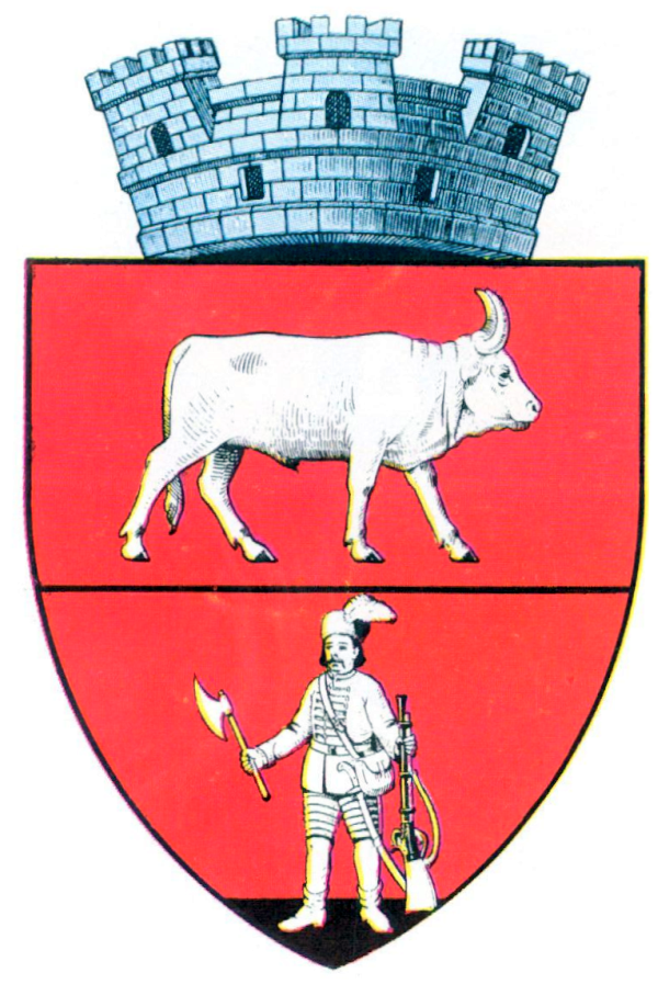 Interwar coat of arms of Darabani, Dorohoi County, Kingdom of Romania.